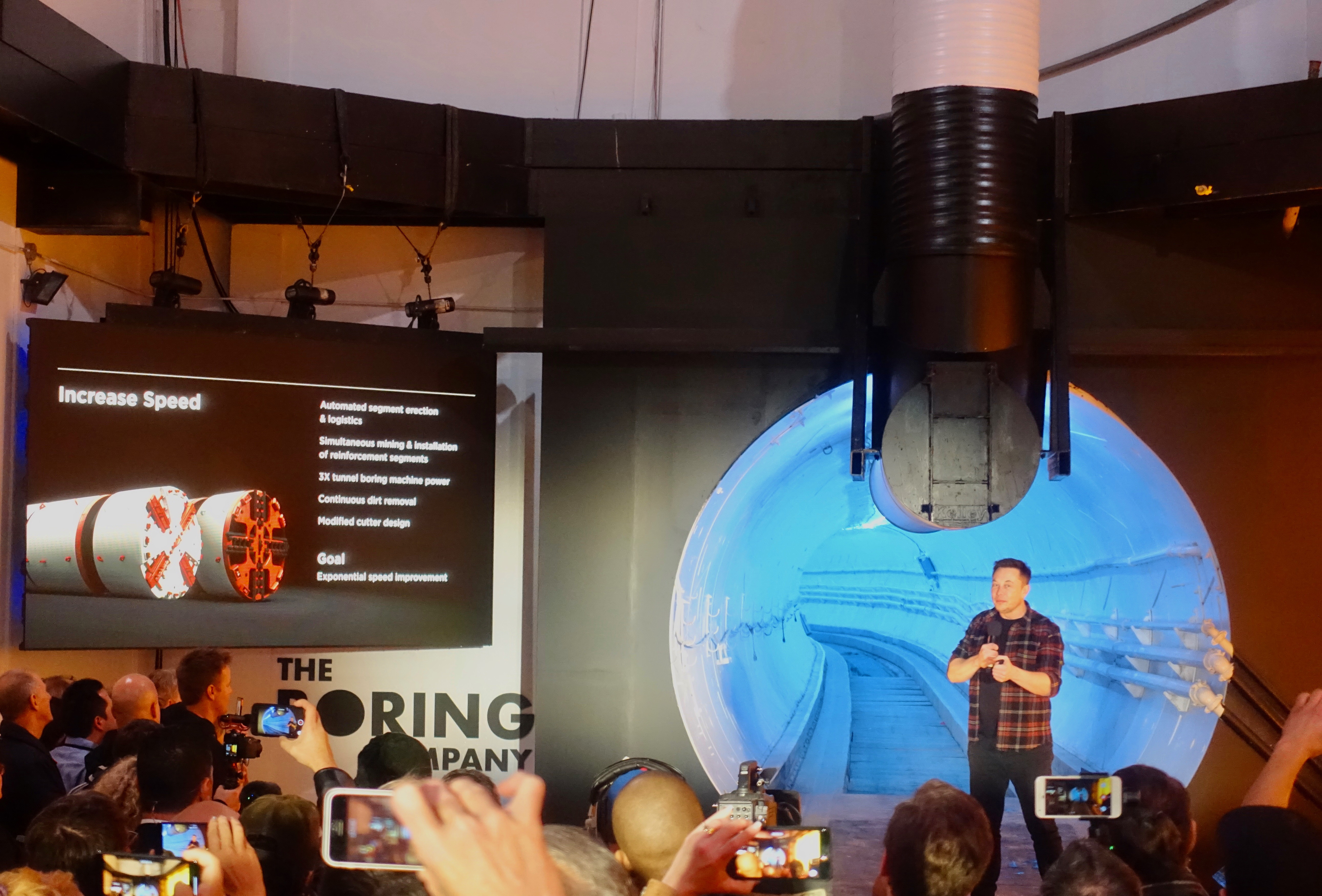 There were many hundreds of cameras going, with videos from all angles. Event webcast .